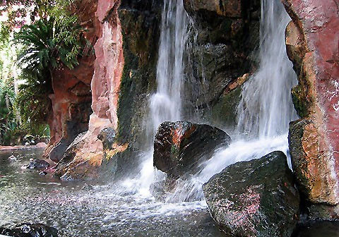 Caution: despite the title the photo definitely does not show Boyoma Falls! (Old description: Boyoma Falls, on the Lualaba River, the greatest headstream tributary of the Congo River by volume of water. Angel Falls in Venezuela is the world's highest waterfall at 3,230 feet. Boyoma Falls on the Congo River (Africa) has the highest volume at 17,000 cubic meter per second. Victoria Falls on the Zambezi River bordering Zambia and Zimbabwe is the largest at roughly a mile wide.)